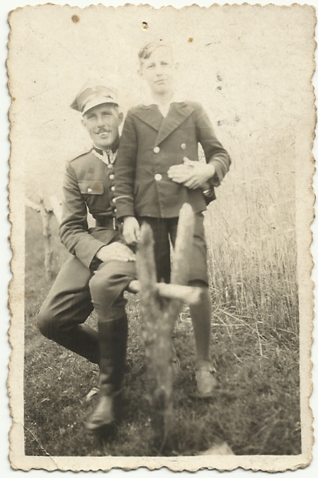 Alojzy Bruski with his son Ambrozy